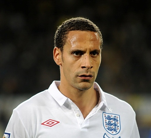 Rio Ferdinand